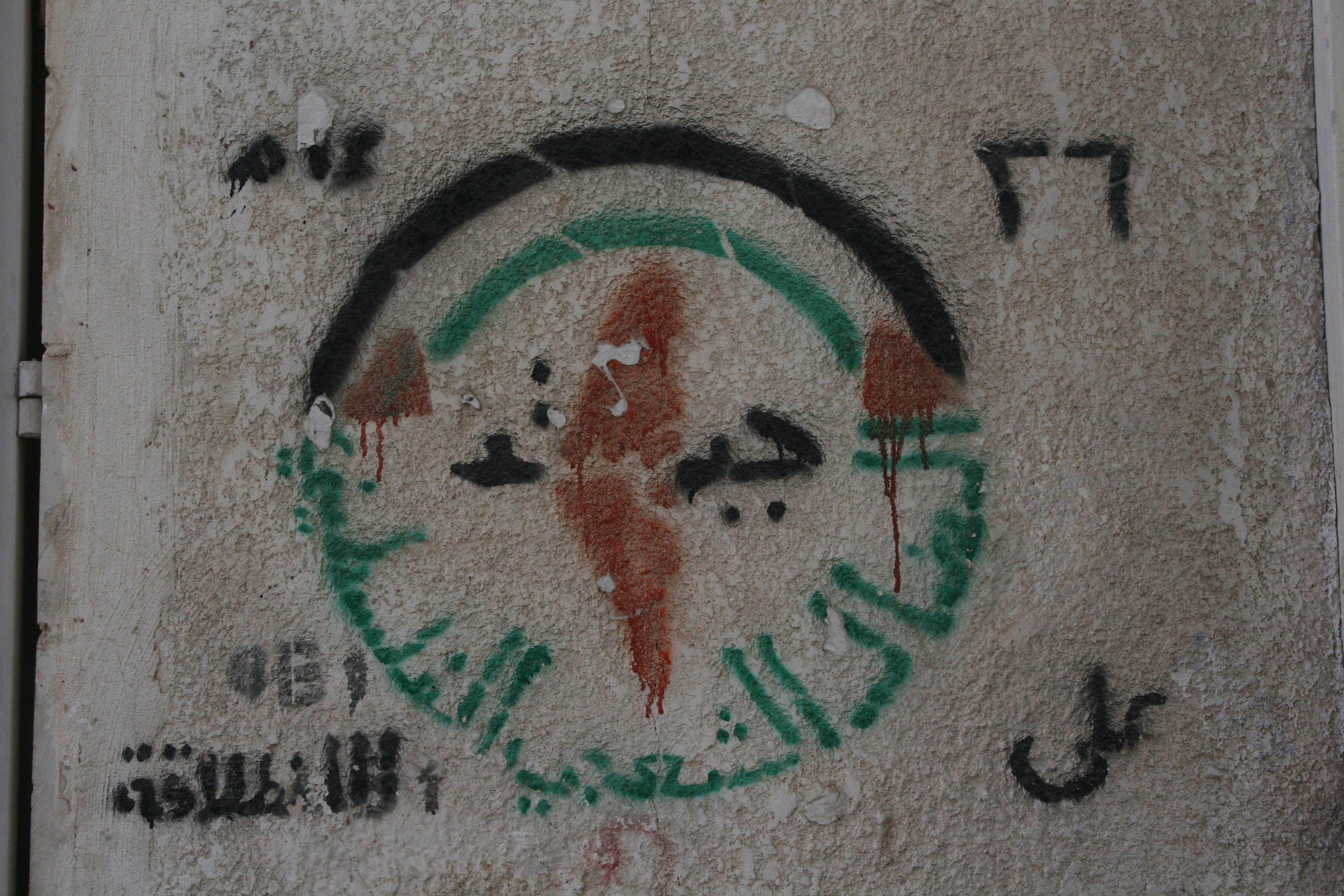 a stencel of Palestinian Popular Struggle Front in qalquileh , westbank, palestine . in its 26th anneversary رسم لجبهة النضال الشعبي الفلسطيني في ذكرى انطلاقتها ال٢٦